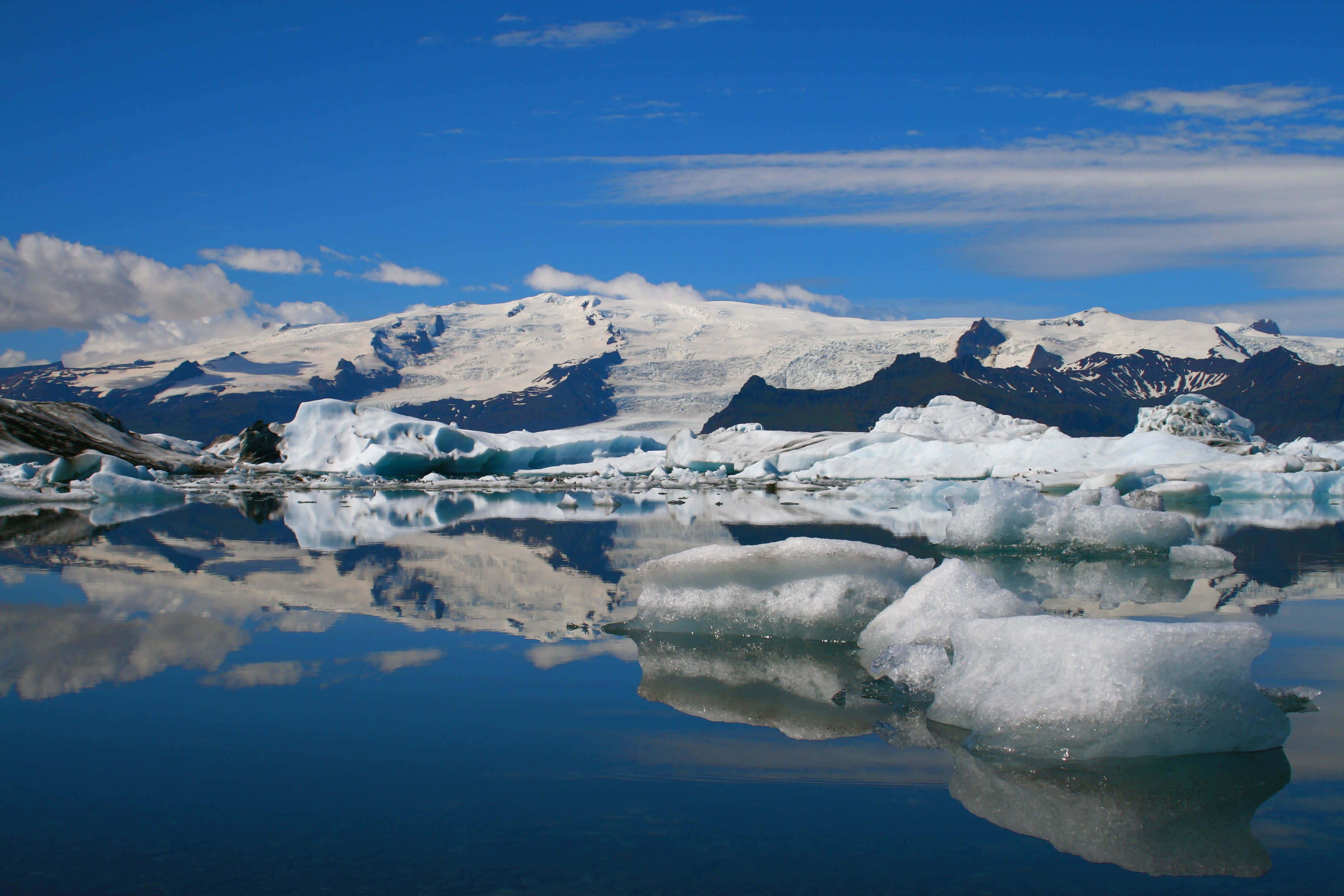 Jökulsárlón in summer 2008